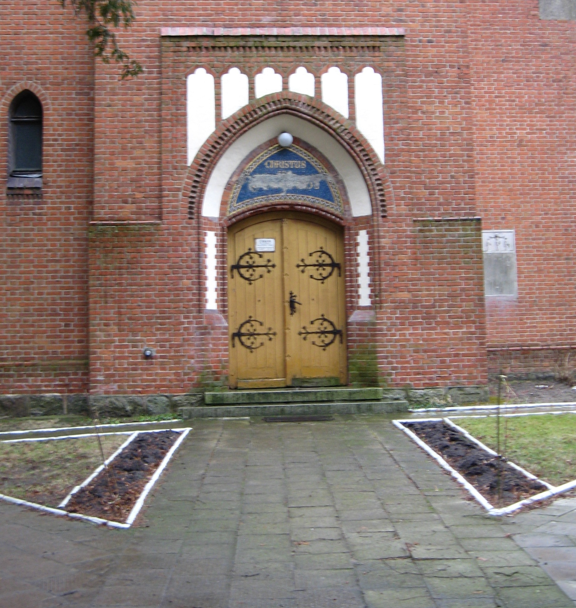 Church in Korsze, Poland.